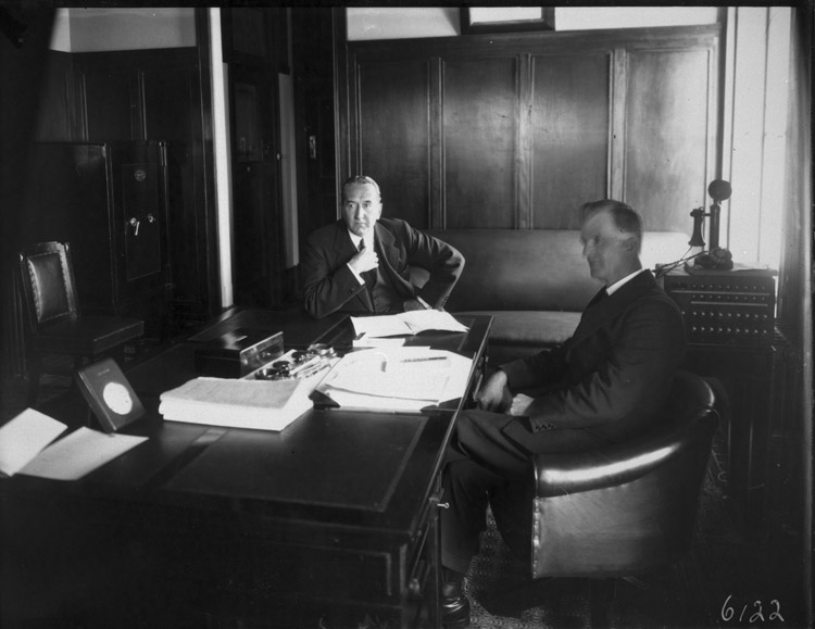 Australian Prime Minister Stanley Bruce and Prime Minister-elect James Scullin hold a private meeting a day before Scullins swearing in as Prime Minister.